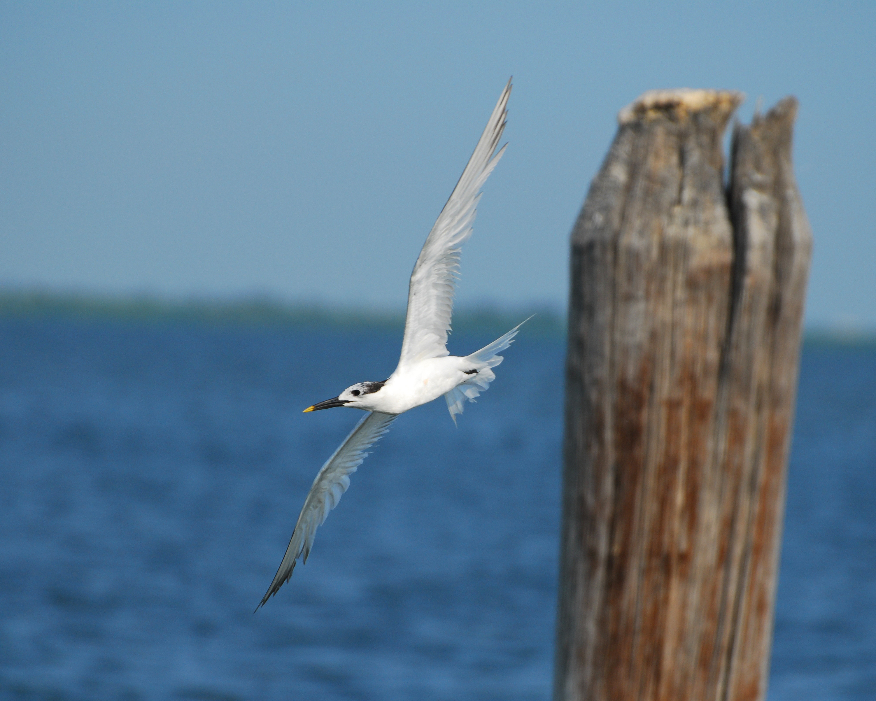 Cabot's Tern Thalasseus acuflavidus, photo by Matt Edmonds in August 2007. Florida.